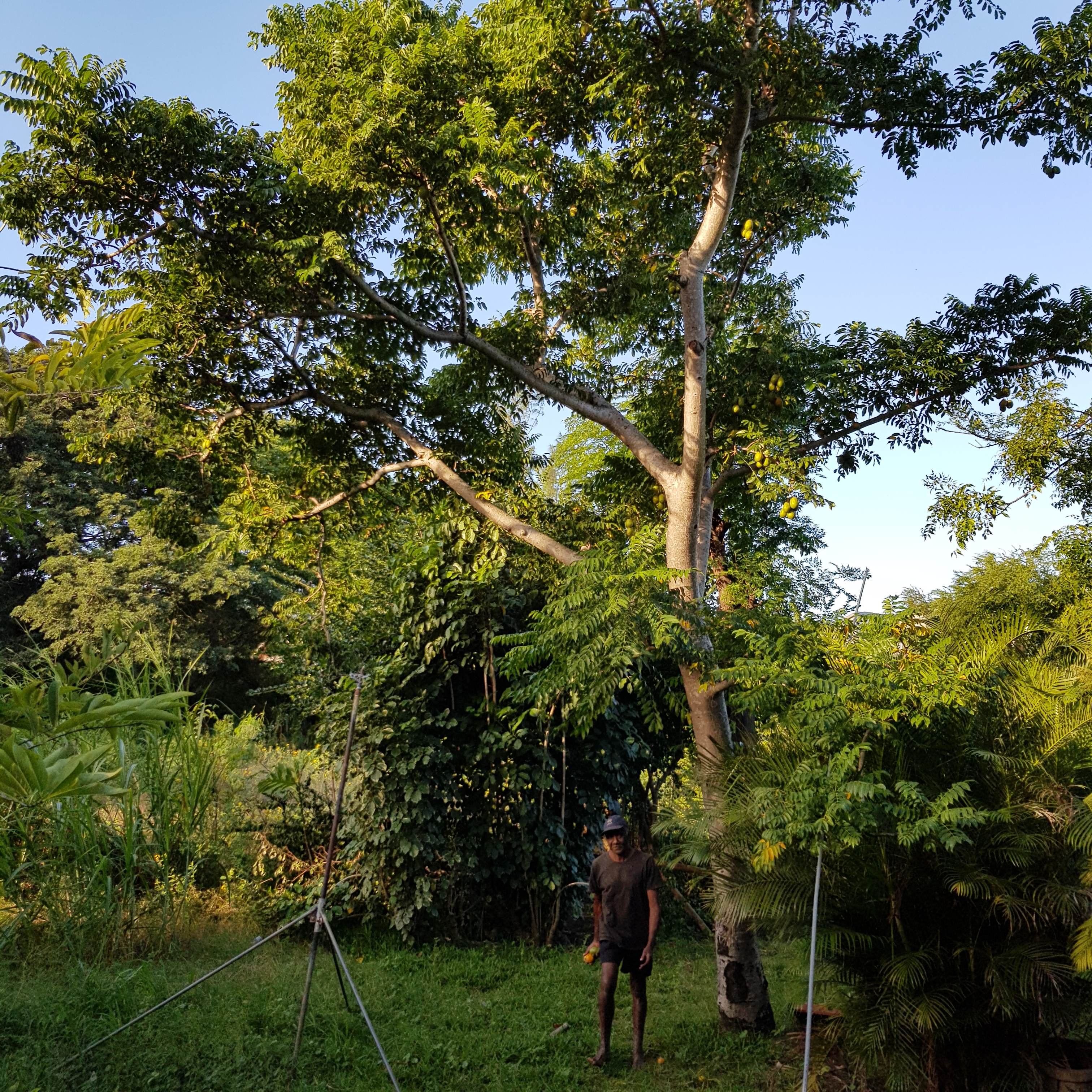 Arbre de Zévi à l'entrée de la forêt de L'Étang-salé les hauts